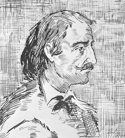 Pierre-Esprit Radisson Source: National Archives of Canada, Canadiana Collection / C-015497